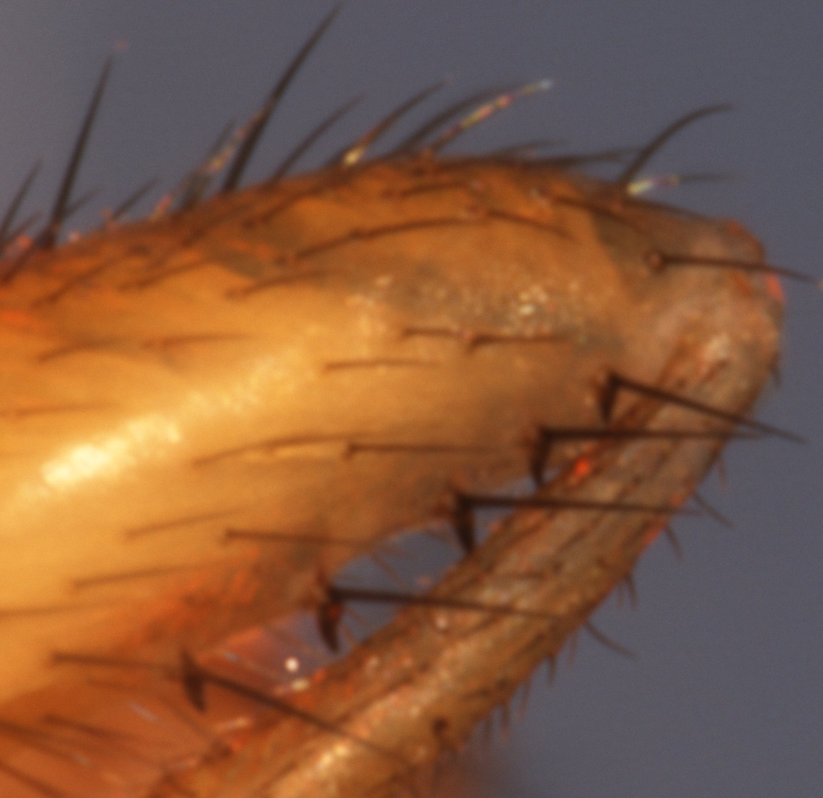 Zaprionus indianus showing the characteristic composite spines of the Zaprionus vittiger species group. Image is constructed of approximately Z-stack 25 images.